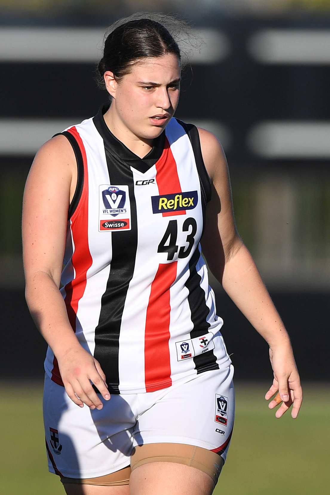 Caitlin Greiser of the Southern Saints during the 2019 VFLW round 2 match between NT Thunder and the Southern Saints at TIO Stadium on Saturday, 18 May 2019 in Darwin, Northern Territory.